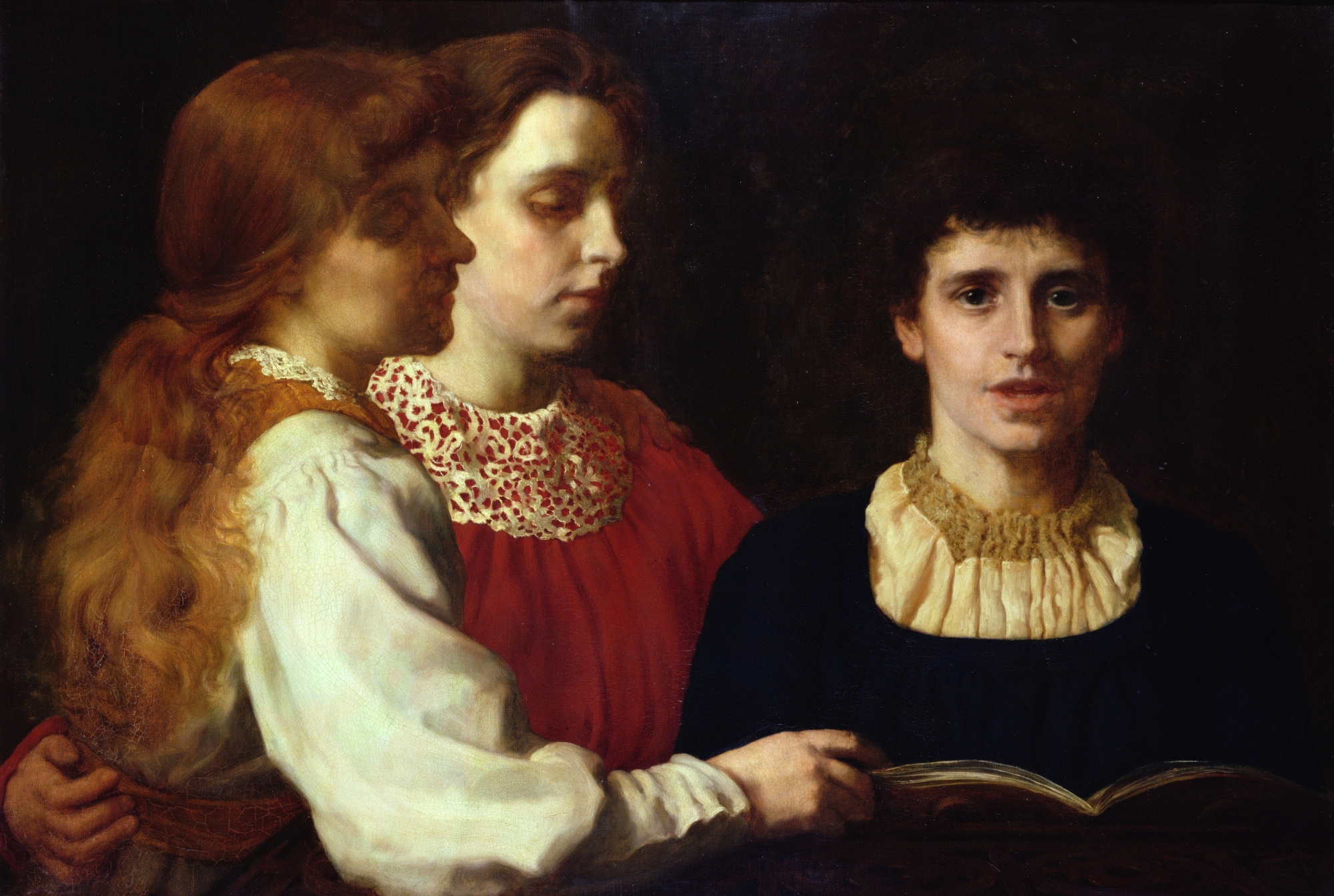 Three half-length figures singing together; from the left, Carrie Yates in profile facing right; Gertrude Santley by her side looking right, and Edith Santley, full face, holding the music book before her.